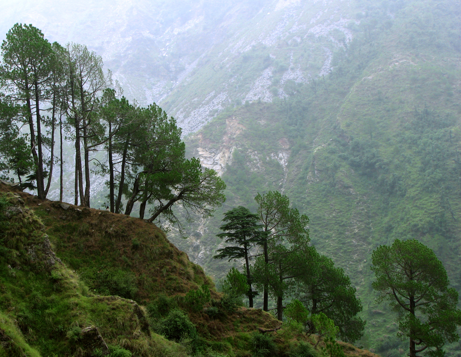 Pine tree line towards Triund peak, above McLeod Ganj, Himachal Pradesh.